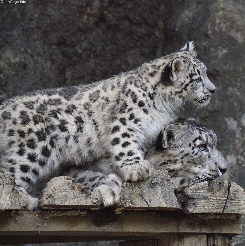 Snow leopard cub and his mother staring